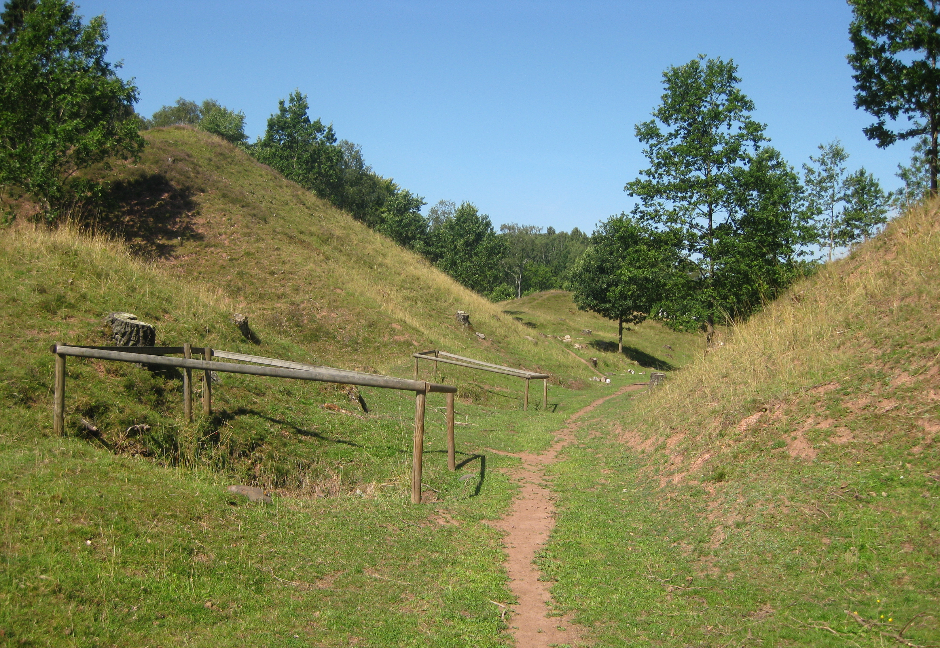 Remains of the historic mine in Andrarum, Skåne, Sweden